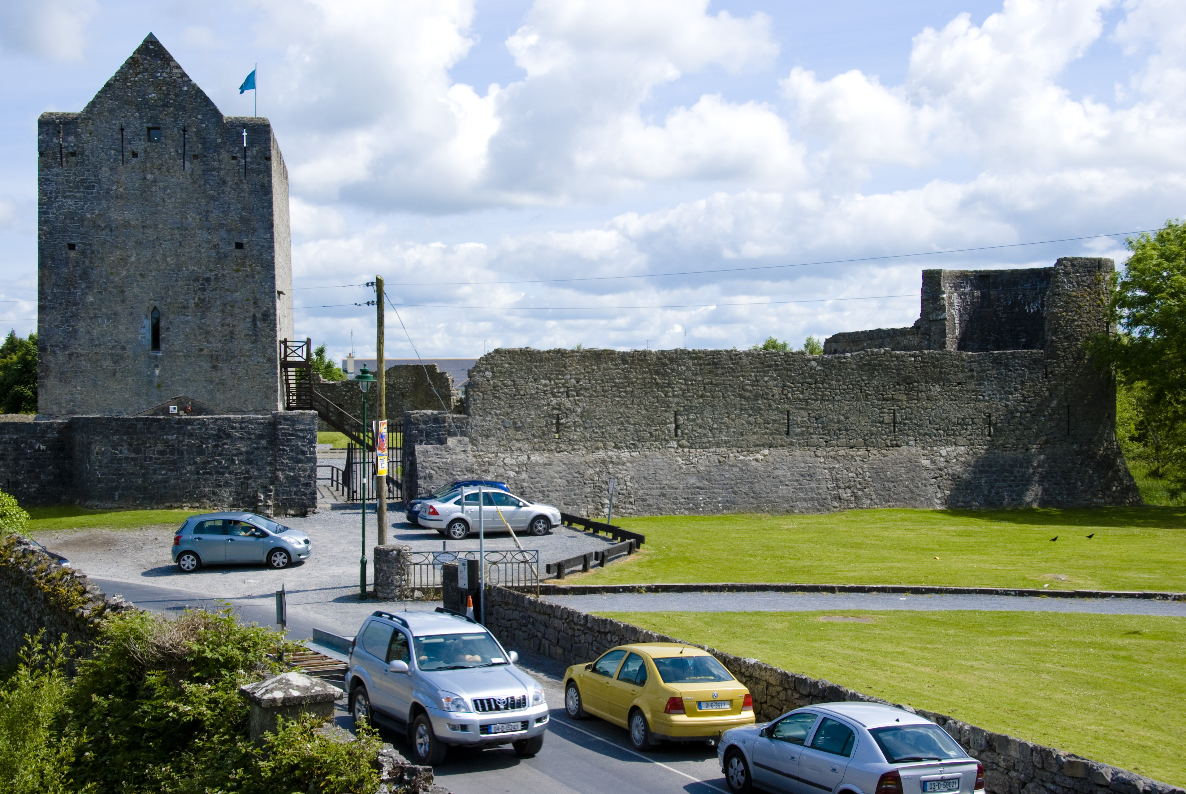 Athenry Castle